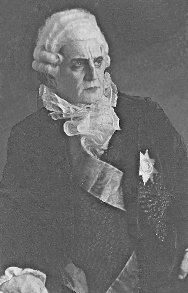 Michael Shuisky (1883–1953), Russian baritone, as Baron Scarpia in Puccini's opera Tosca